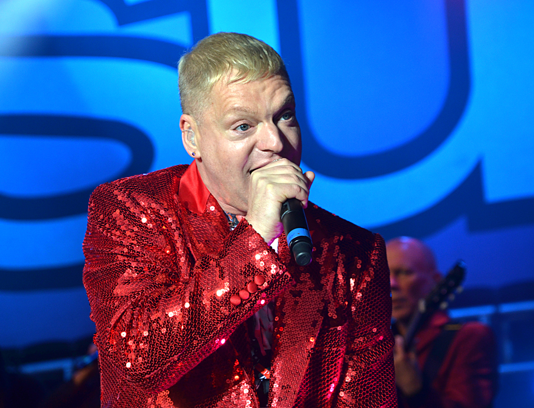 Erasure performed at Delamere Forest (near Chester), England, UK on 1 July 2011. Erasure were supported by the four-piece Foreign Office. Erasure were on form, they kicked off with "Hideaway", and just sang hit after hit, "Oh L'Amour", "Sometimes", "Victim of Love", "Love to Hate You", "Breathe", "Knocking on your Door", "Chains of Love", "Ship of Fools" and many more.